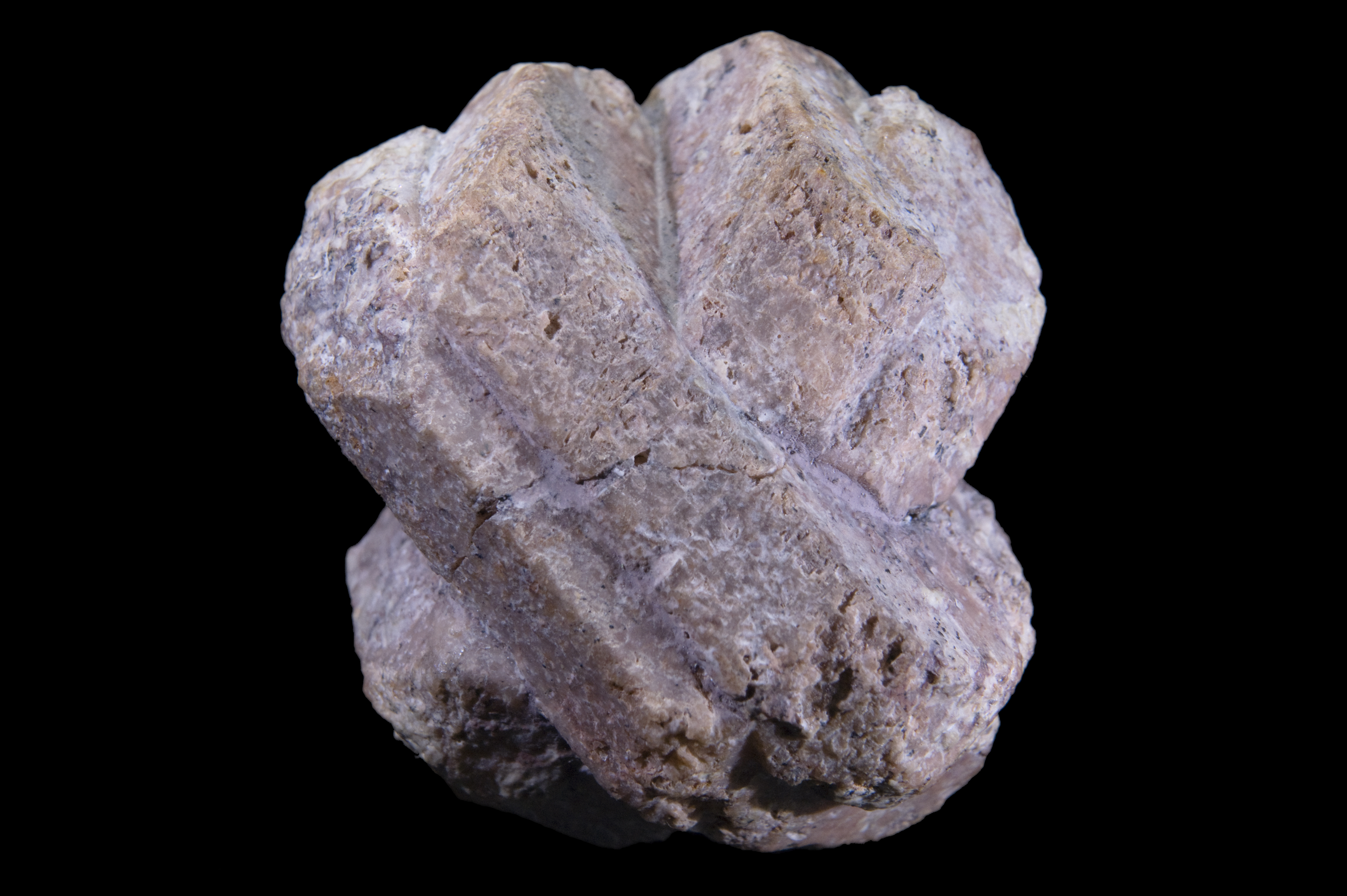 Orthoclase - Karlsbad Twin Locality : Ceilhes, Ceilhes-et-Rocozels, Hérault, Languedoc-Roussillon, France Size : 4x3.6cm